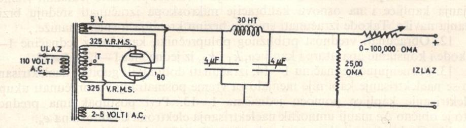 Usual source of voltage